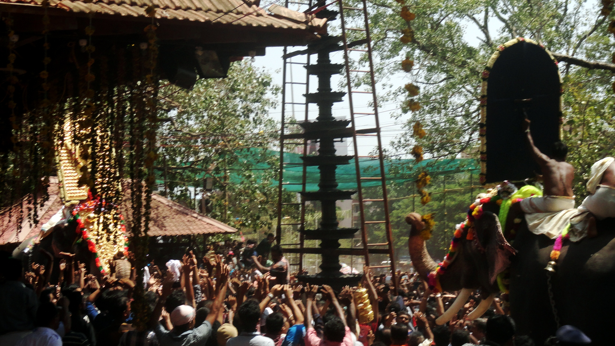 "Upacharam Cholli Piriyal" function from Thrissur Pooram. Deities of two temples greet(elephants lift their trunk) and promise to meet next year and leave. Last function of Thrissur Pooram.